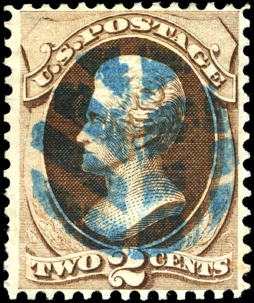 United States 2c stamp of 1870; This example has a fancy cancel in the form of a leaf. (Note that this may or may not be an authentic cancel. The stamp is not tied to a cover, and the cancel is suspiciously well-centered and -oriented for something that was usually hastily applied by overworked clerks. However, this type of cancel is not especially rare, and an unused stamp of this type is worth at least 10 times more than if cancelled, so if faked, it was not for financial gain.)